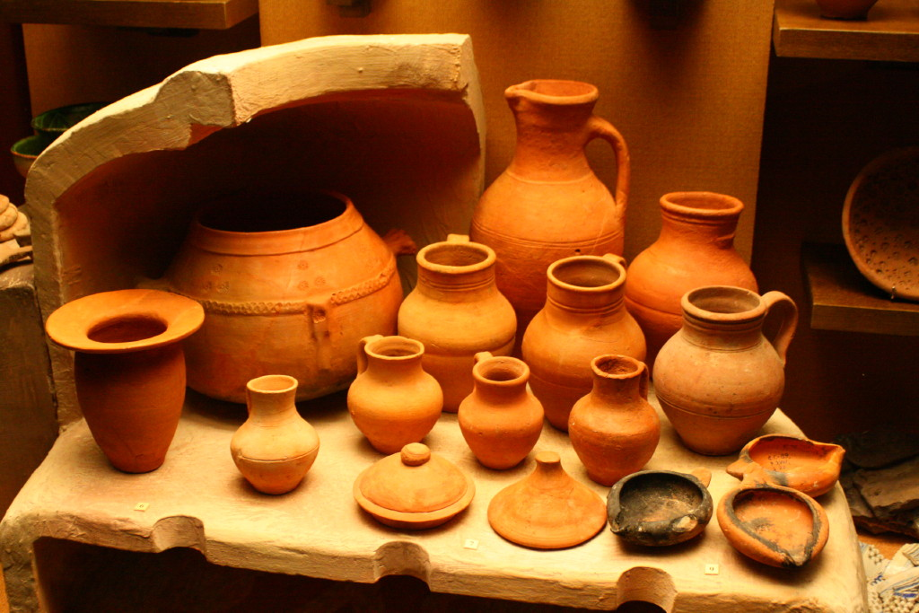 Golden Horde ceramic ware from State Historical Museum, Moscow